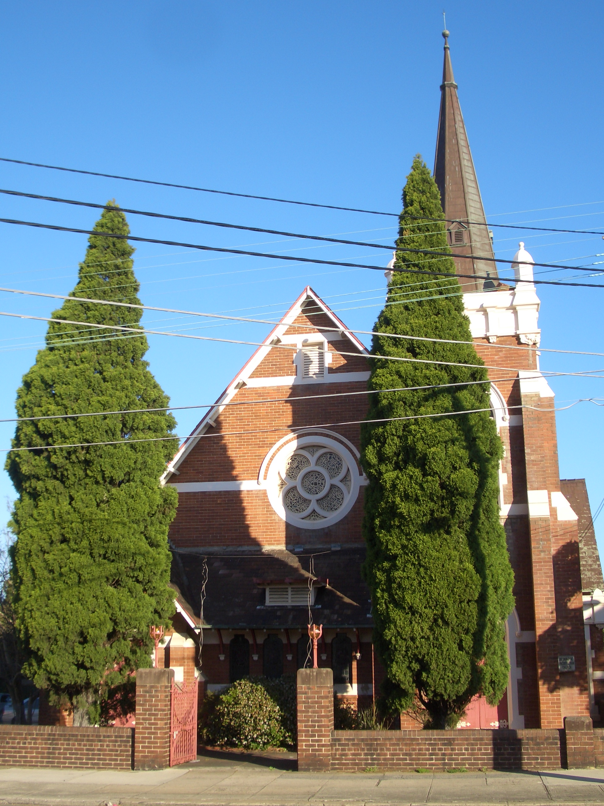 Drummoyne Presbyterian Church (Australia)